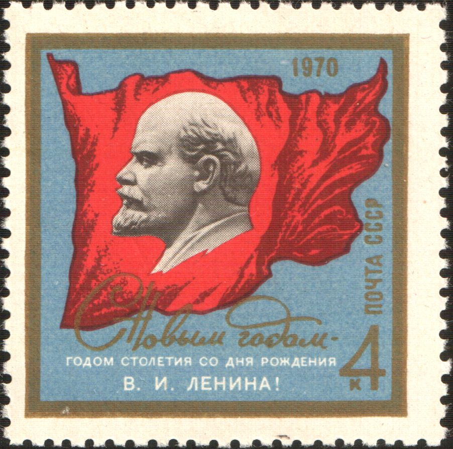 USSR stampː Lenin on Red Flag. Seriesː Happy New Year 1970, Birth Centenary of Vladimir Lenin